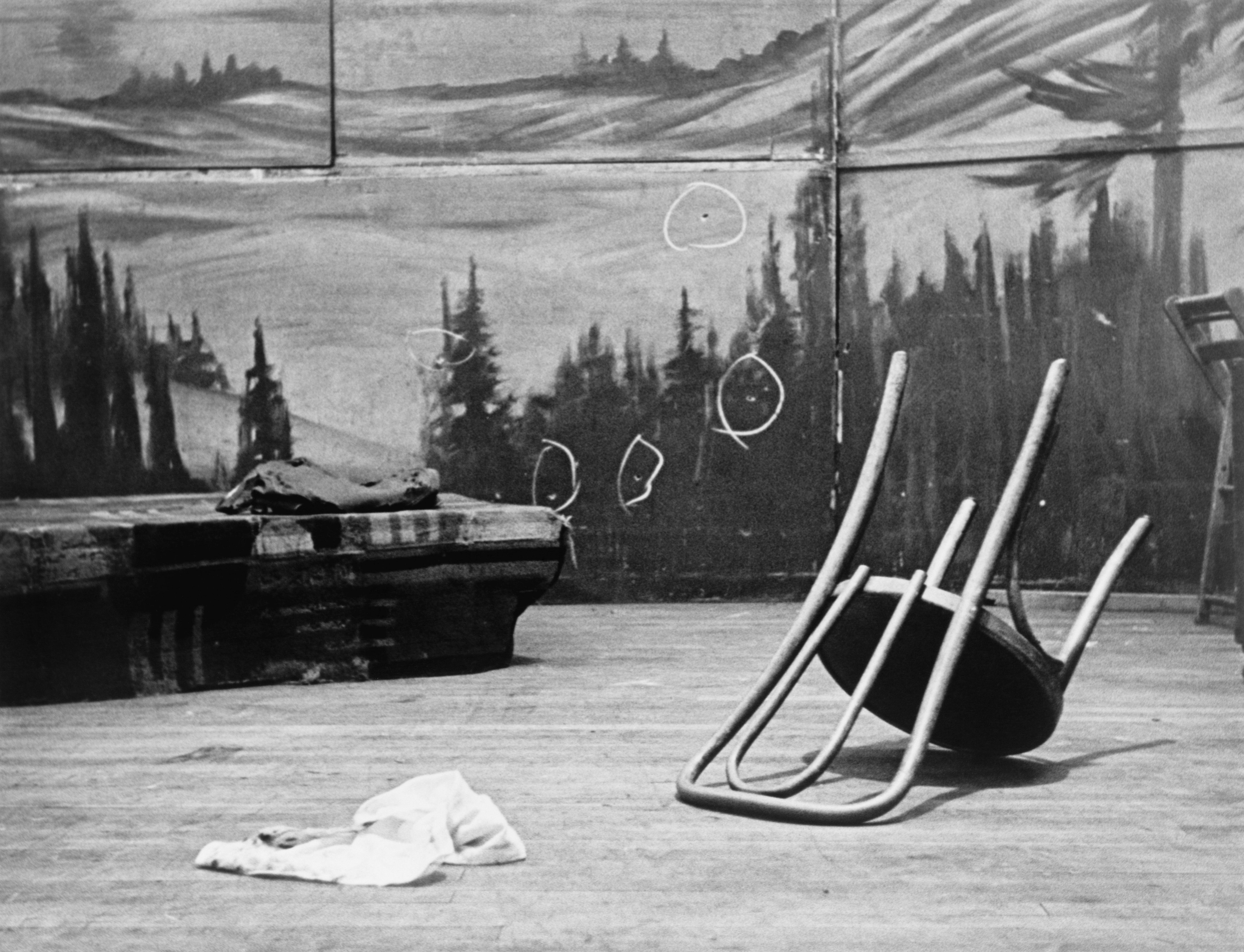 Bullet holes in back of stage where Malcolm X was shot. Photographic print.